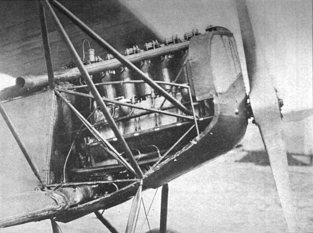 Installation of Liberty L-6 SOHC inline six cylinder aviation engine in a captured German Fokker D.VII fighter aircraft, under test in USA after World War I.